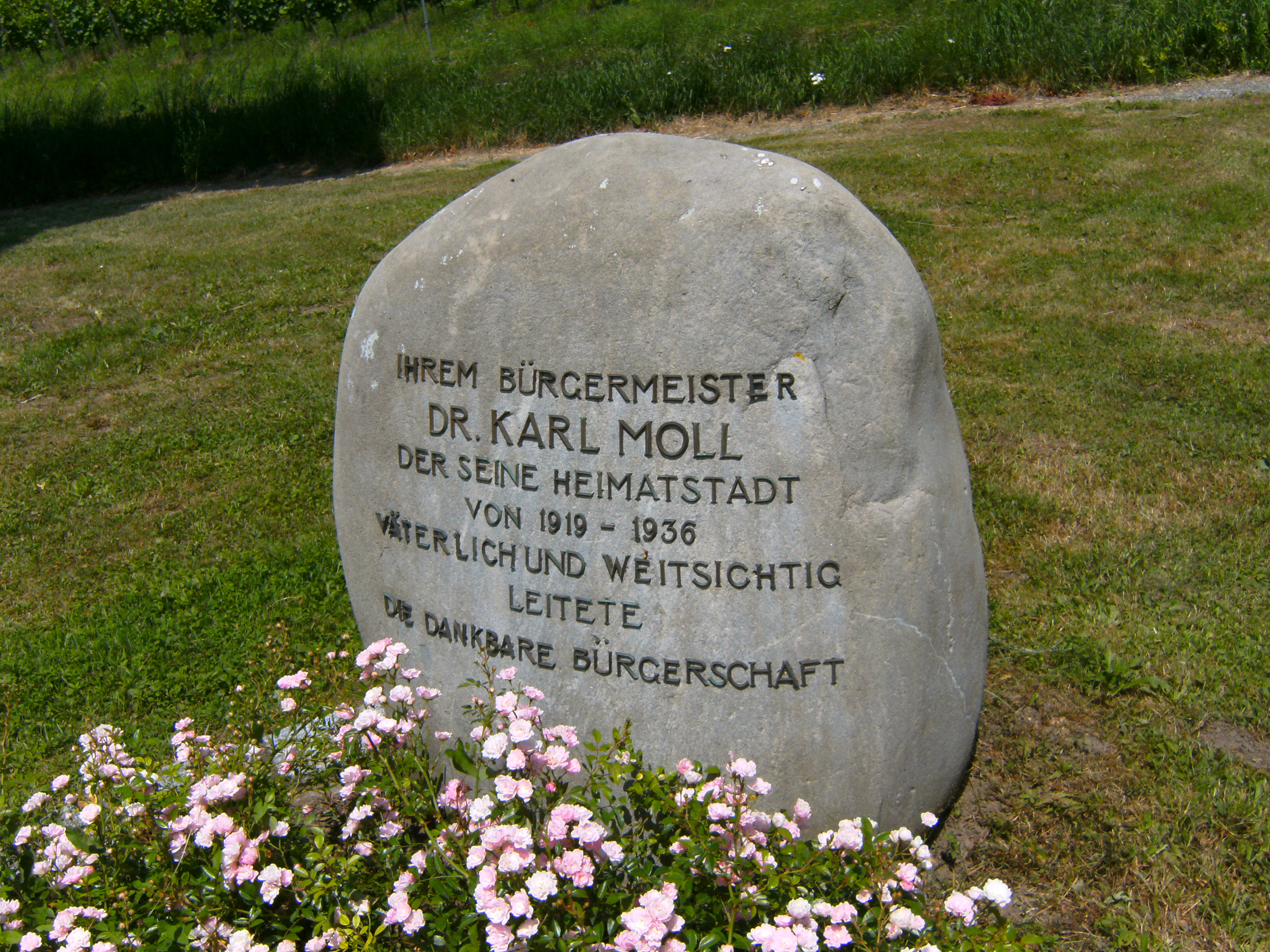 Commemorative stone for former mayor of Meersburg Karl Moll in Meersburg at Bundesstraße 33, Germany.